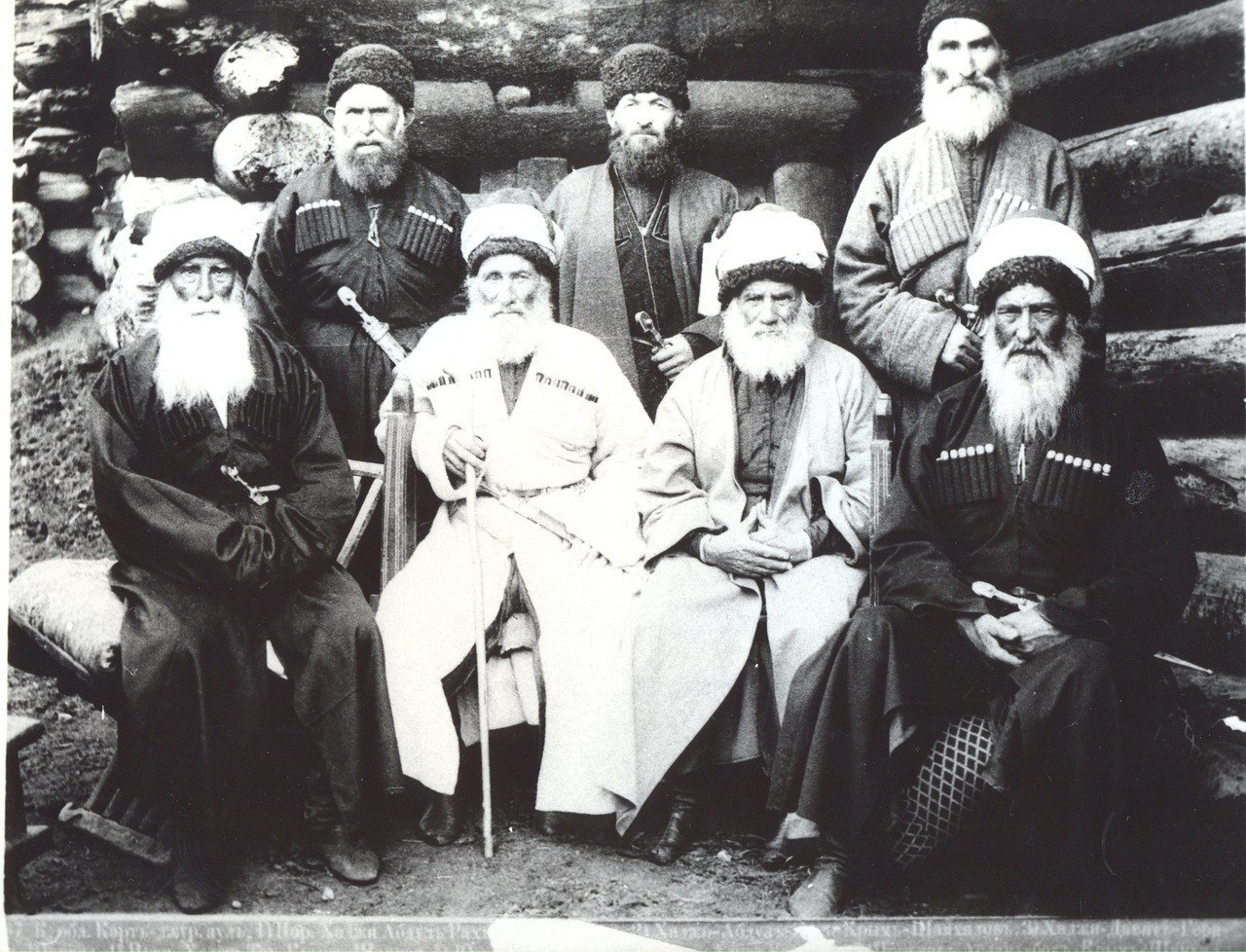 Karachay patriarchs in the 19th century (higher resolution)